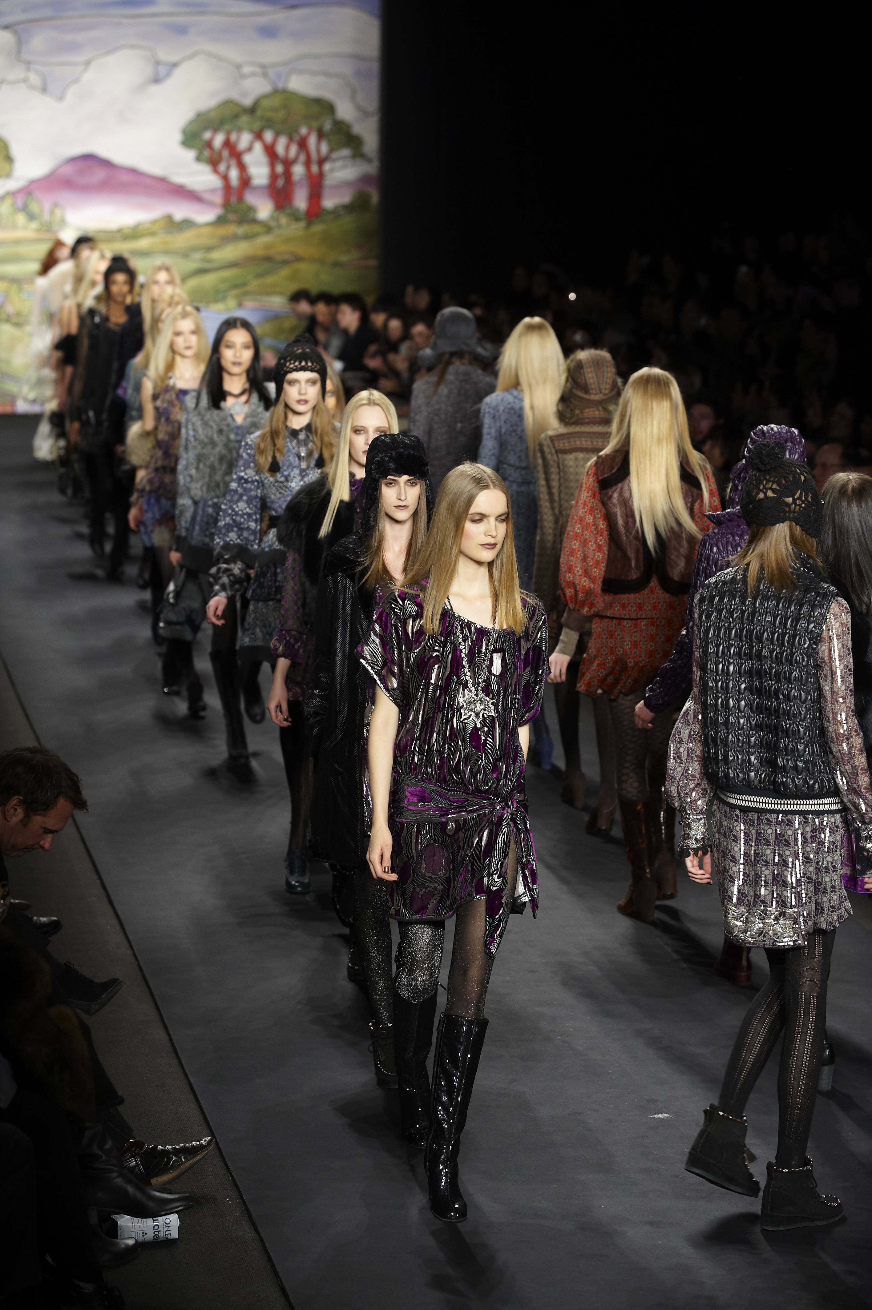 Models take to the runway at the conclusion of the Anna Sui Fall/Winter 2010 show at New York Fashion Week, February 2010.